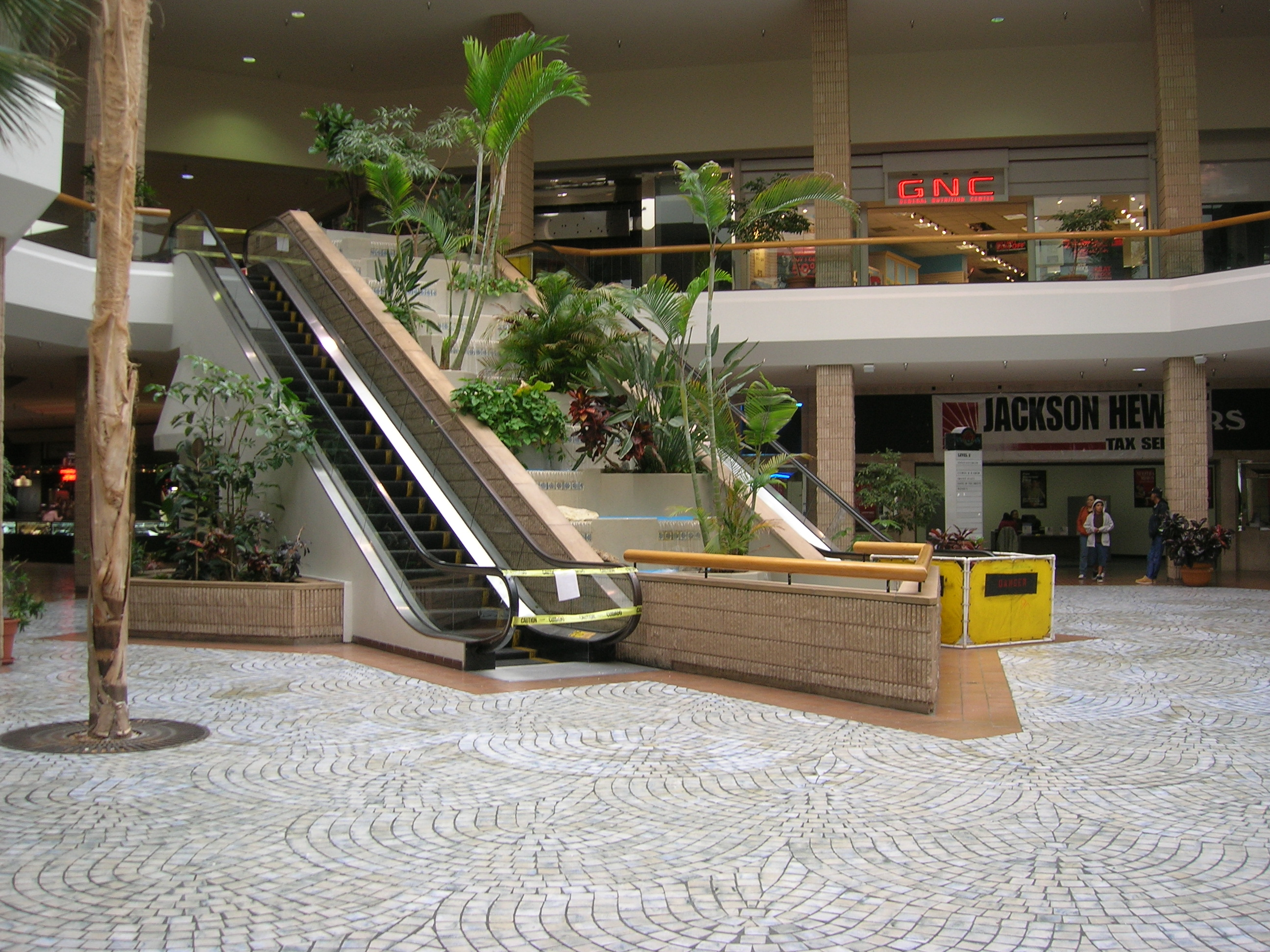 This is a photograph of the escalator and fountains that were used in the movie The Legend of Billie Jean. Photo taken at the Sunrise Mall, in Corpus Christi, Texas.